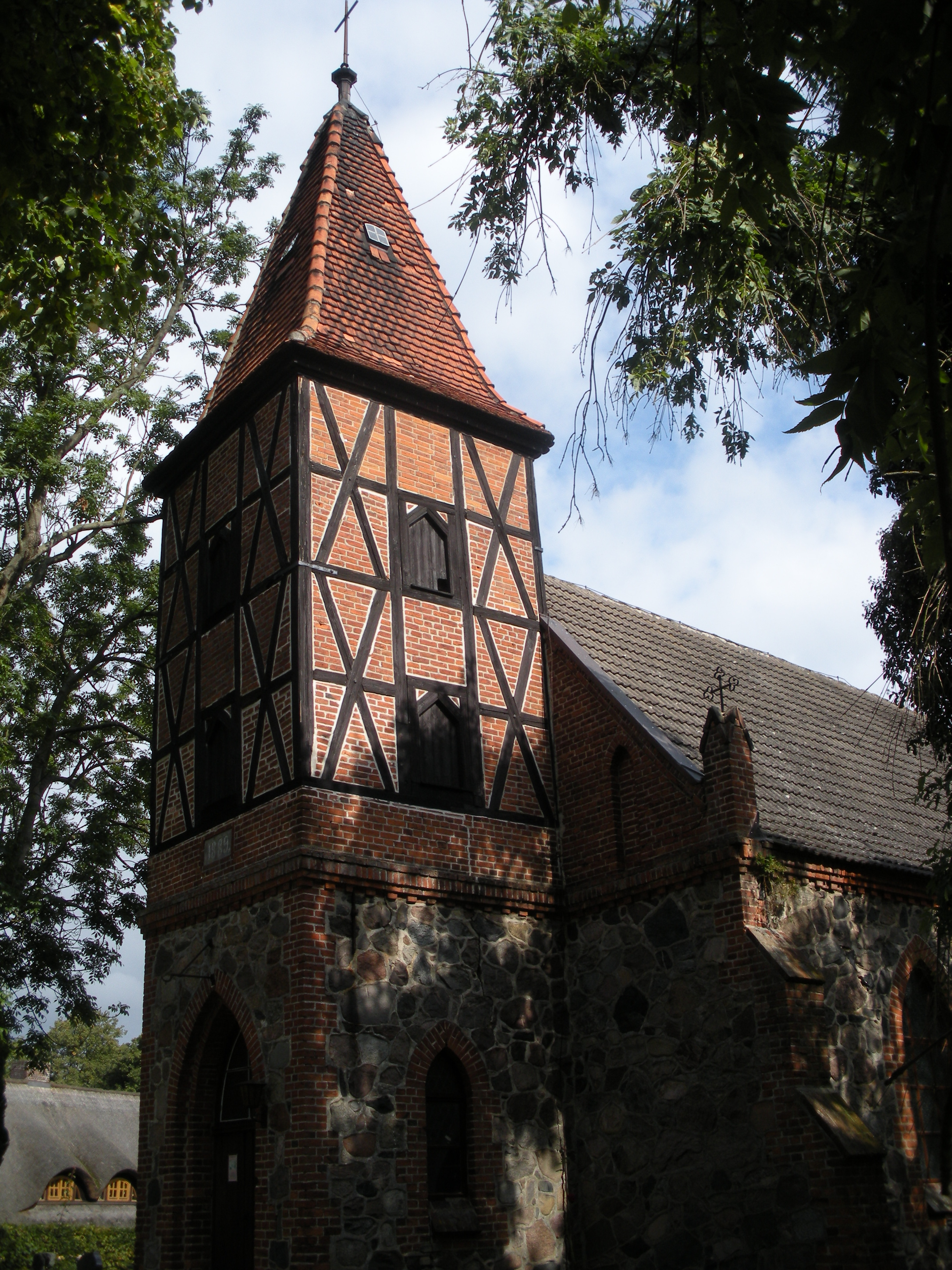 Protesant Church in Penzlin-Alt Rehse